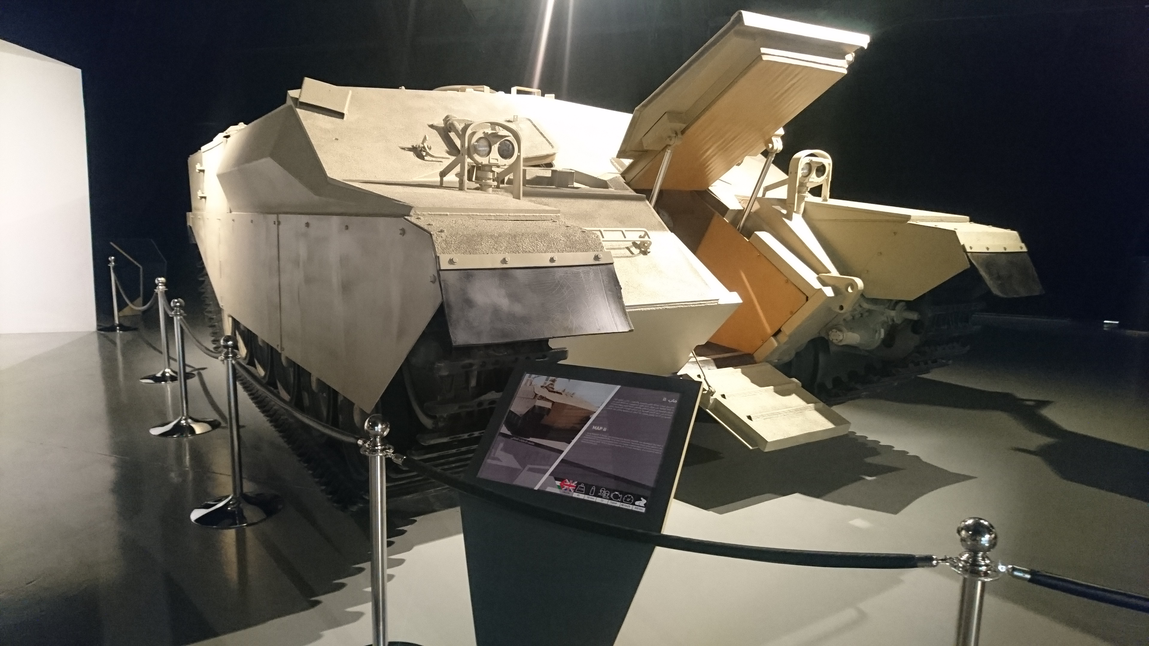 KADDB MAP 2